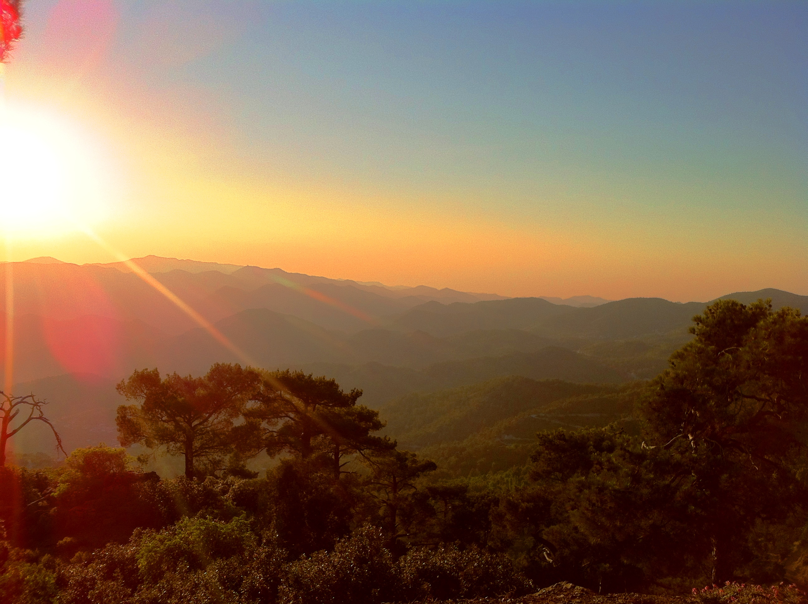 Troodos Mountains